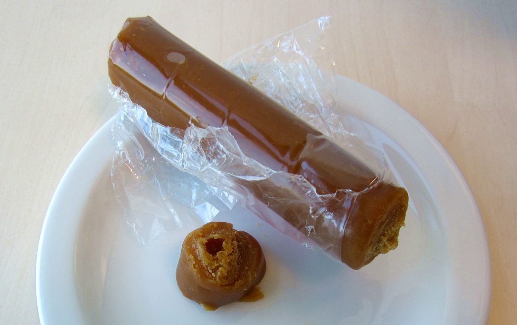 A sample of durian cake, fruit preserves made with durian.